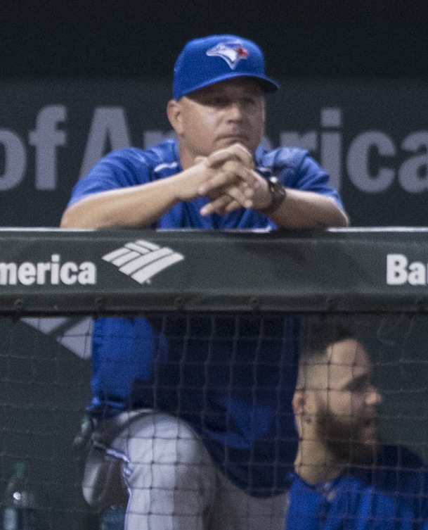 John Gibbons, DeMarlo Hale, Pete Walker, Brook Jacoby, Eric Owens and Troy Tulowitzki of the Toronto Blue Jays look on during a 2016 game against the Baltimore Orioles at Camden Yards in Baltimore.